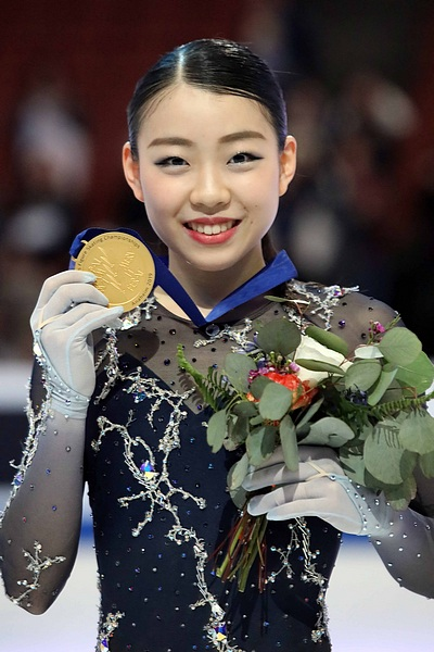 Rika Kihira at the 2019 Four Continents Championships - Awarding ceremony